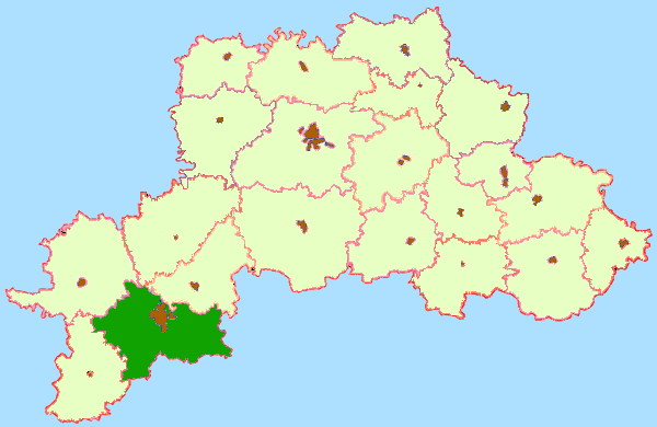 Mogilev Region map by Al Silonov